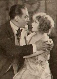 Still for the American film The Girl in Number 29 (1920) with Frank Mayo and Claire Anderson, page 3098 of the April 3, 1920 Motion Picture News.